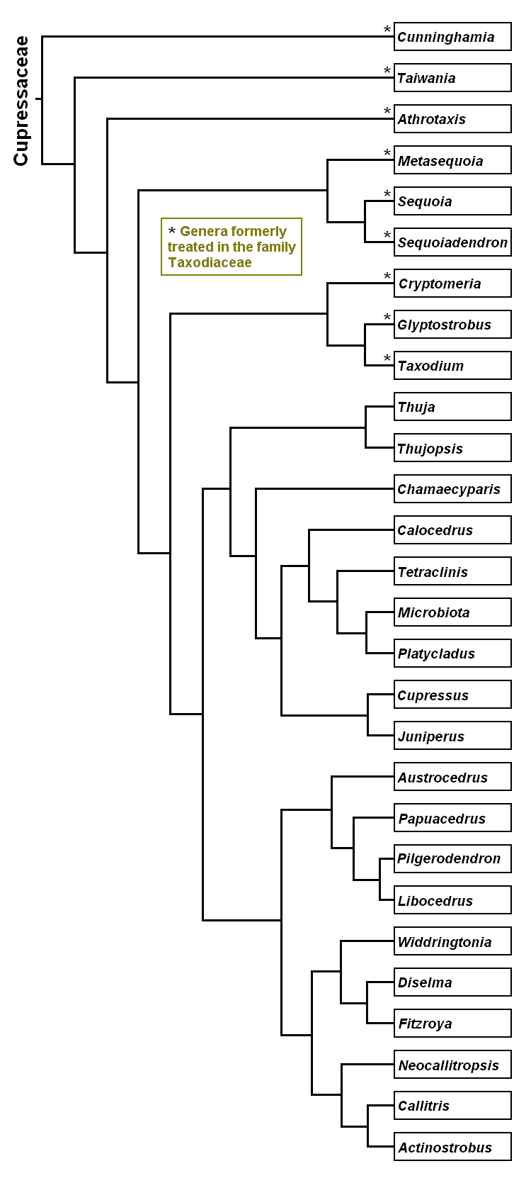 Phylogeny of Cupressaceae, based on: Gadek, P. A., Alpers, D. L., Heslewood, M. M., & Quinn, C. J. (2000). Relationships within Cupressaceae sensu lato: a combined morphological and molecular approach. American Journal of Botany 87: 1044–1057. Farjon, A. (2005). Monograph of Cupressaceae and Sciadopitys. Royal Botanic Gardens, Kew. ISBN 1-84246-068-4. Xiang, Q., & Li, J. (2005). Derivation of Xanthocyparis and Juniperus from within Cupressus: Evidence from Sequences of nrDNA Internal Transcribed Spacer Region. Harvard Papers in Botany 9 (2): 375-382.